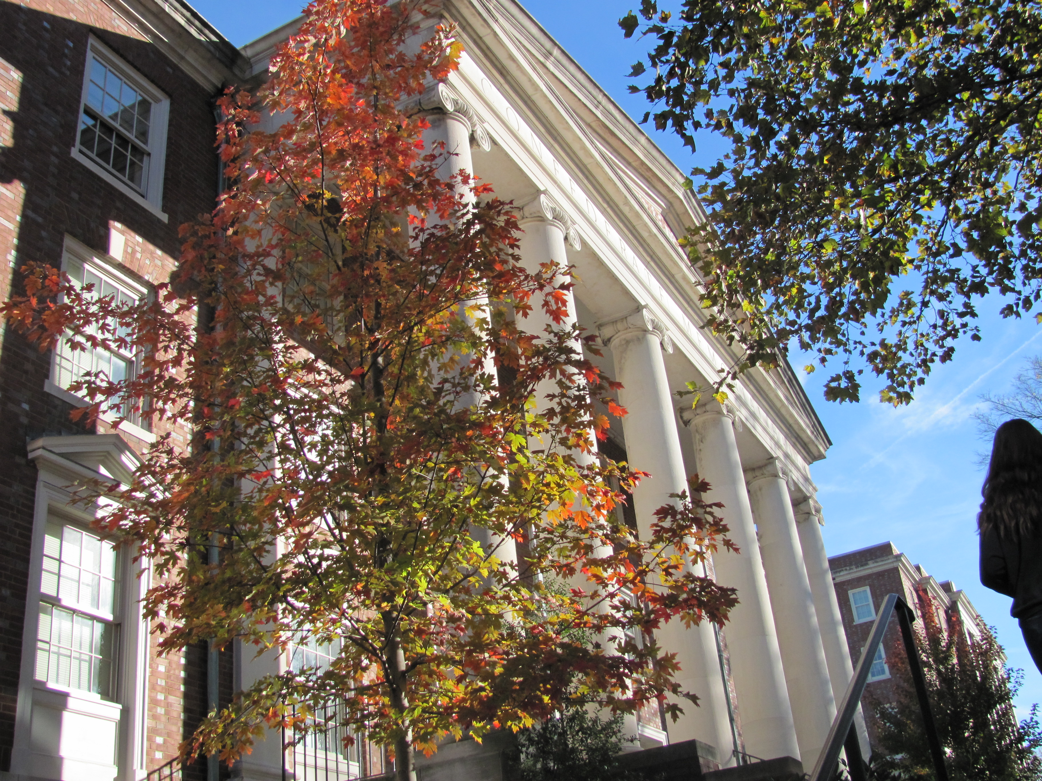 ConfederateMemorialHall